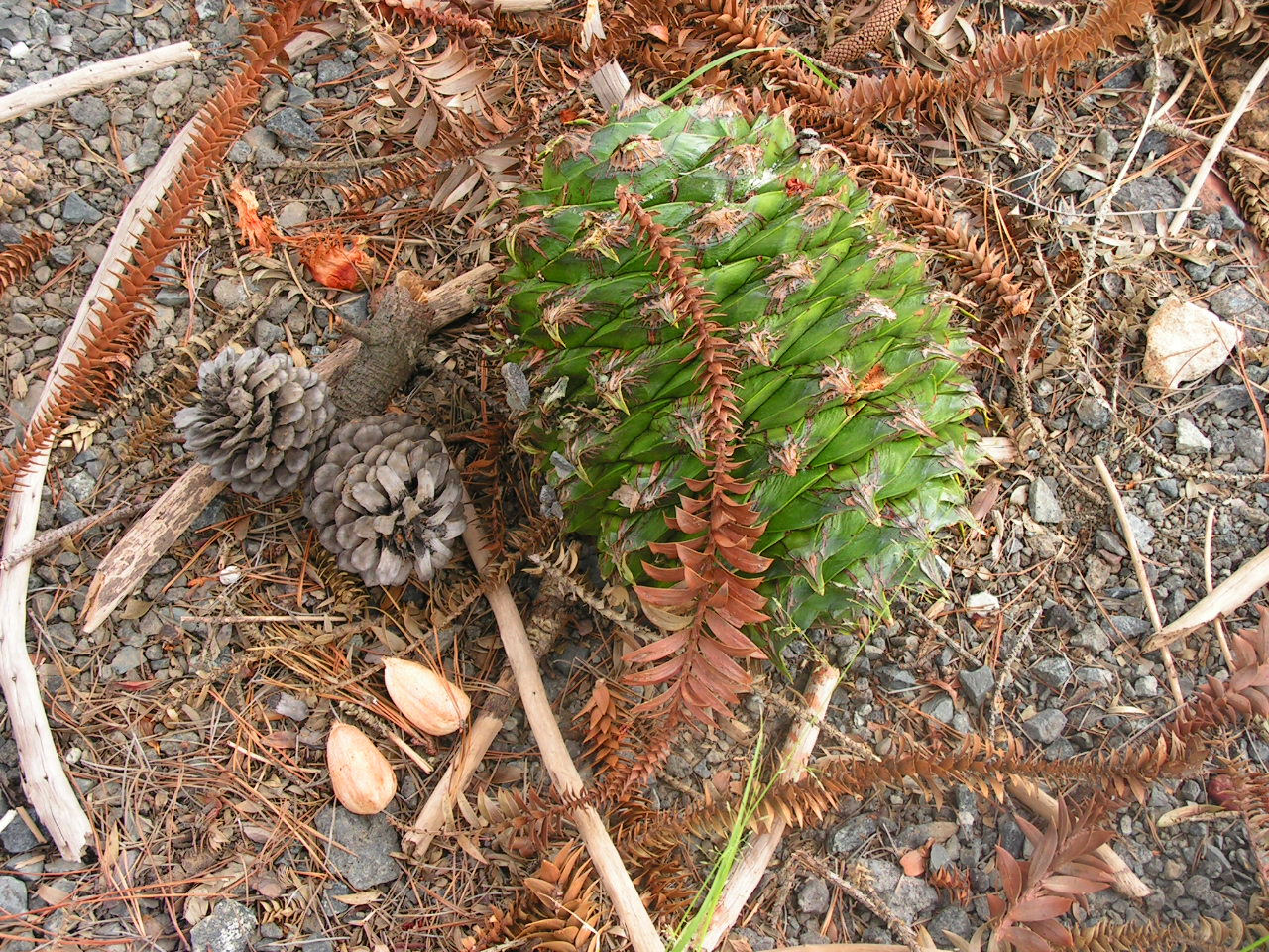 Bunya cone and nuts from Bunya Pine (Araucaria bidwillii) Sydney, Australia